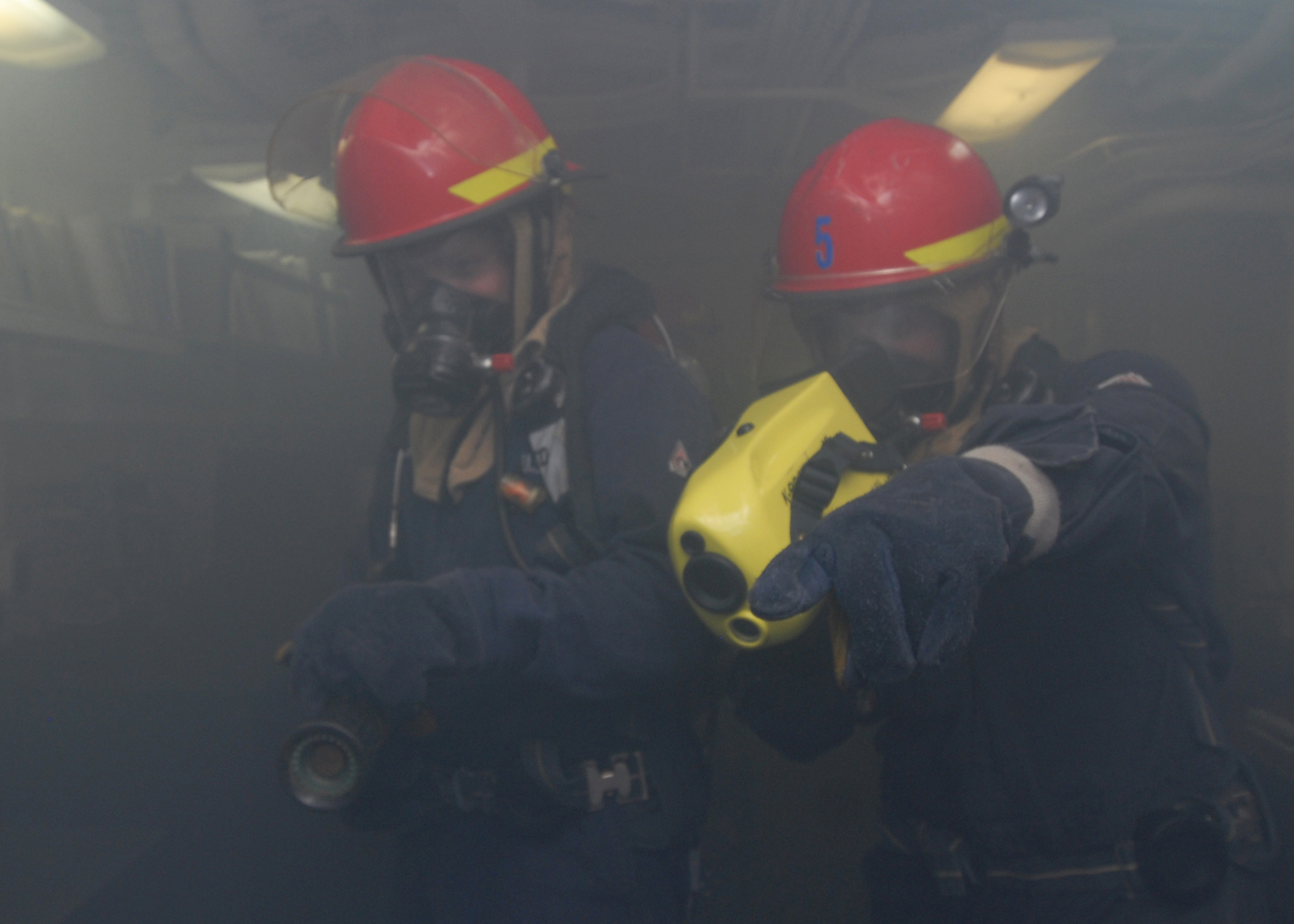 ARABIAN GULF (July 6, 2011) Damage Controlman Fireman Christopher Beuscher, right, uses a Naval firefighter's thermal imager to see through smoke as Damage Controlman Fireman Phillip Huskie holds a hose during a firefighting drill aboard the guided-missile cruiser USS Gettysburg (CG 64). Gettysburg is on a scheduled deployment supporting maritime security operations and theater security cooperation efforts in the U.S. 5th Fleet area of responsibility. (U.S. Navy photo by Mass Communication Specialist 3rd Class Betsy Lynn Knapper/Released)